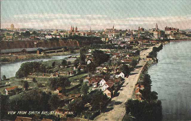 View from Smith Avenue of houses along river, "Little Italy" of St. Paul.